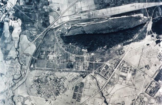 6th Naval Fuel Depot, Takao